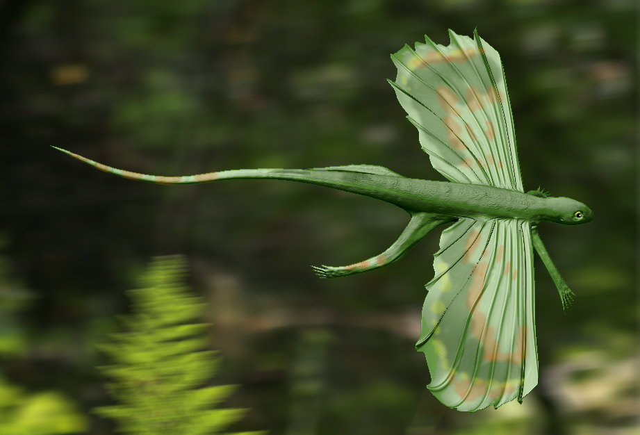 Icarosaurus siefkeri from the Late Triassic of New Jersey, digital.